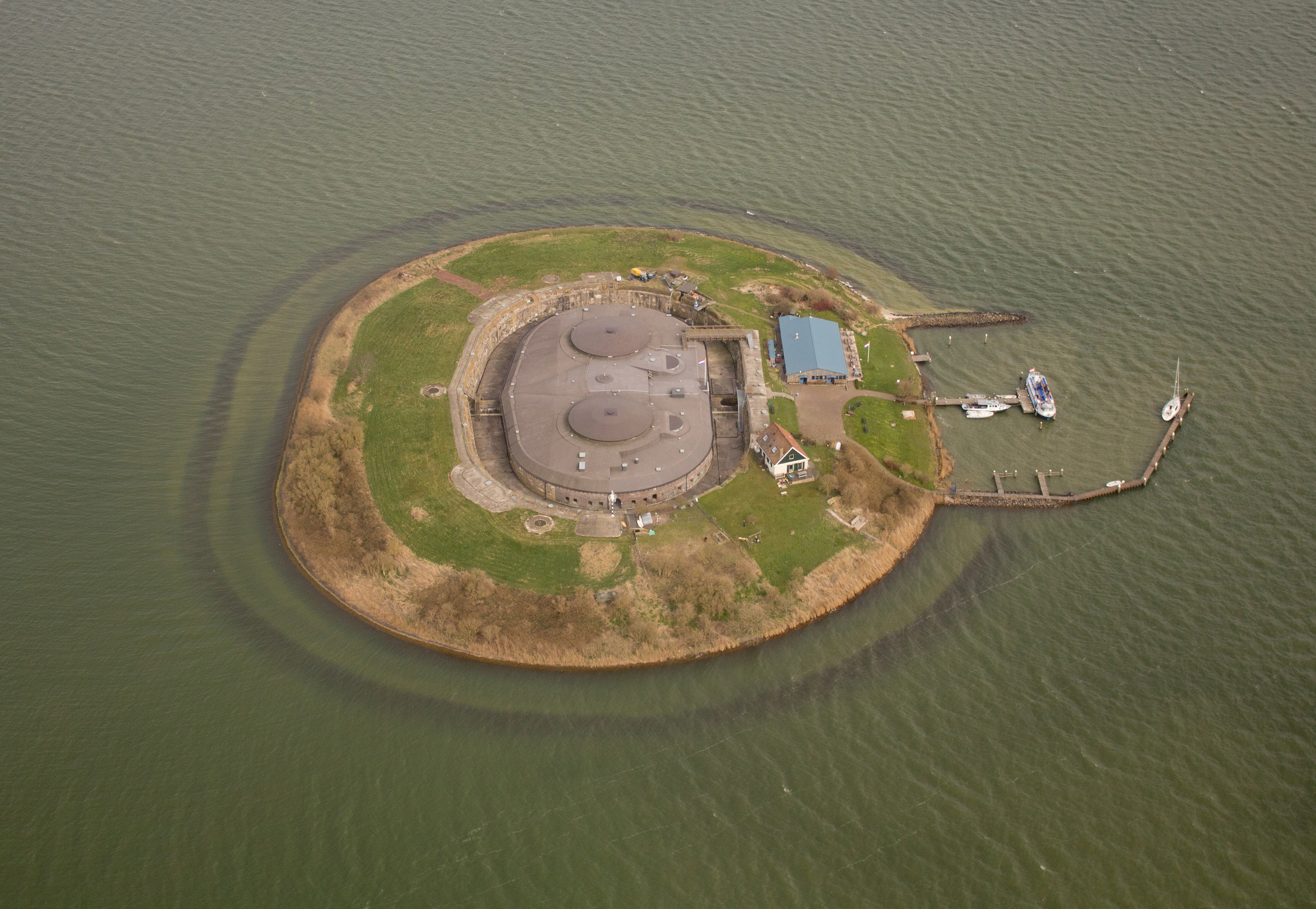 Pampus, in the IJsselmeer near Muiden, the Netherlands.